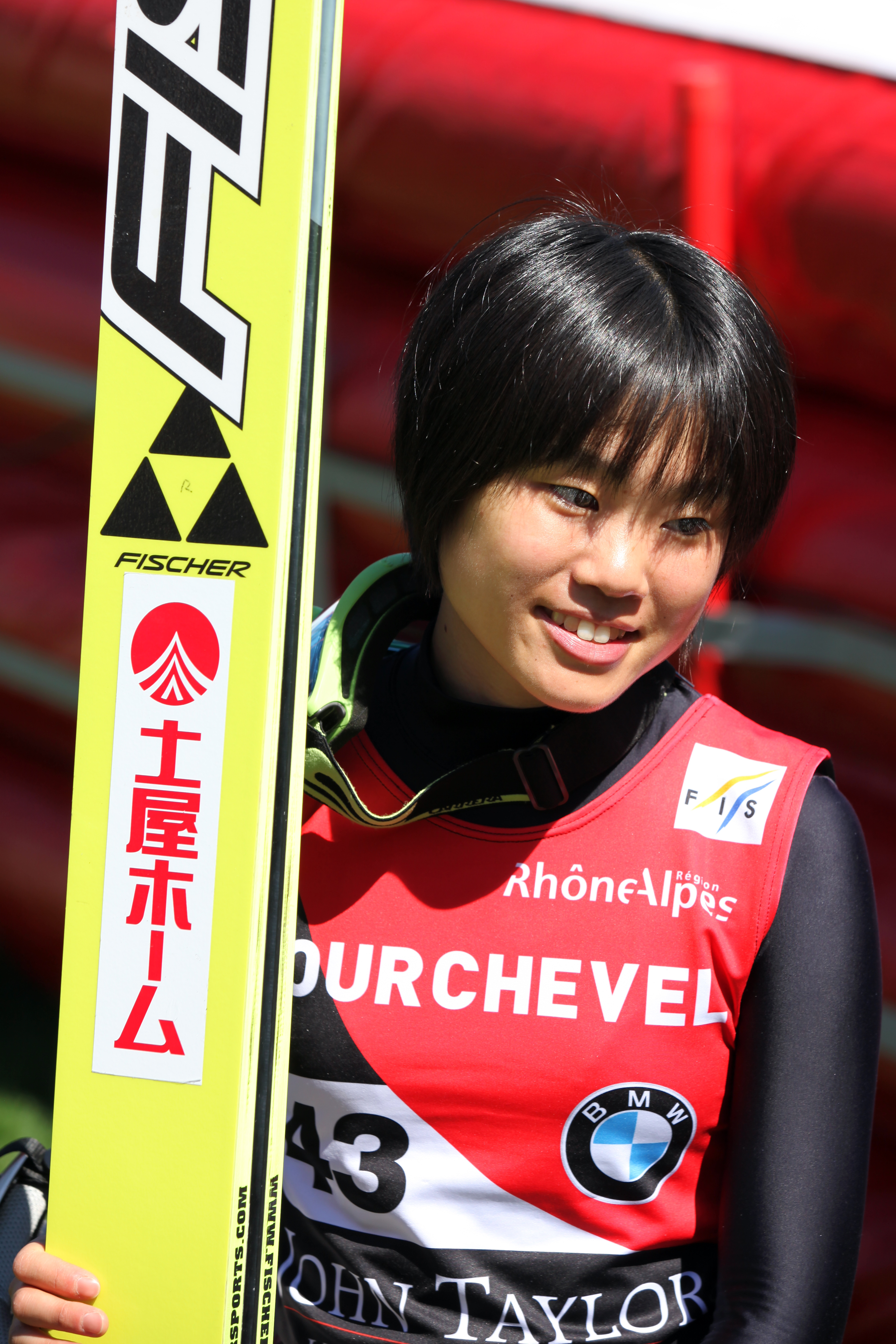 Yuki Ito, winner of a silver (team ranking) and a bronze medal (individual ranking) at the Summer Grand Prix ski jumping in Courchevel